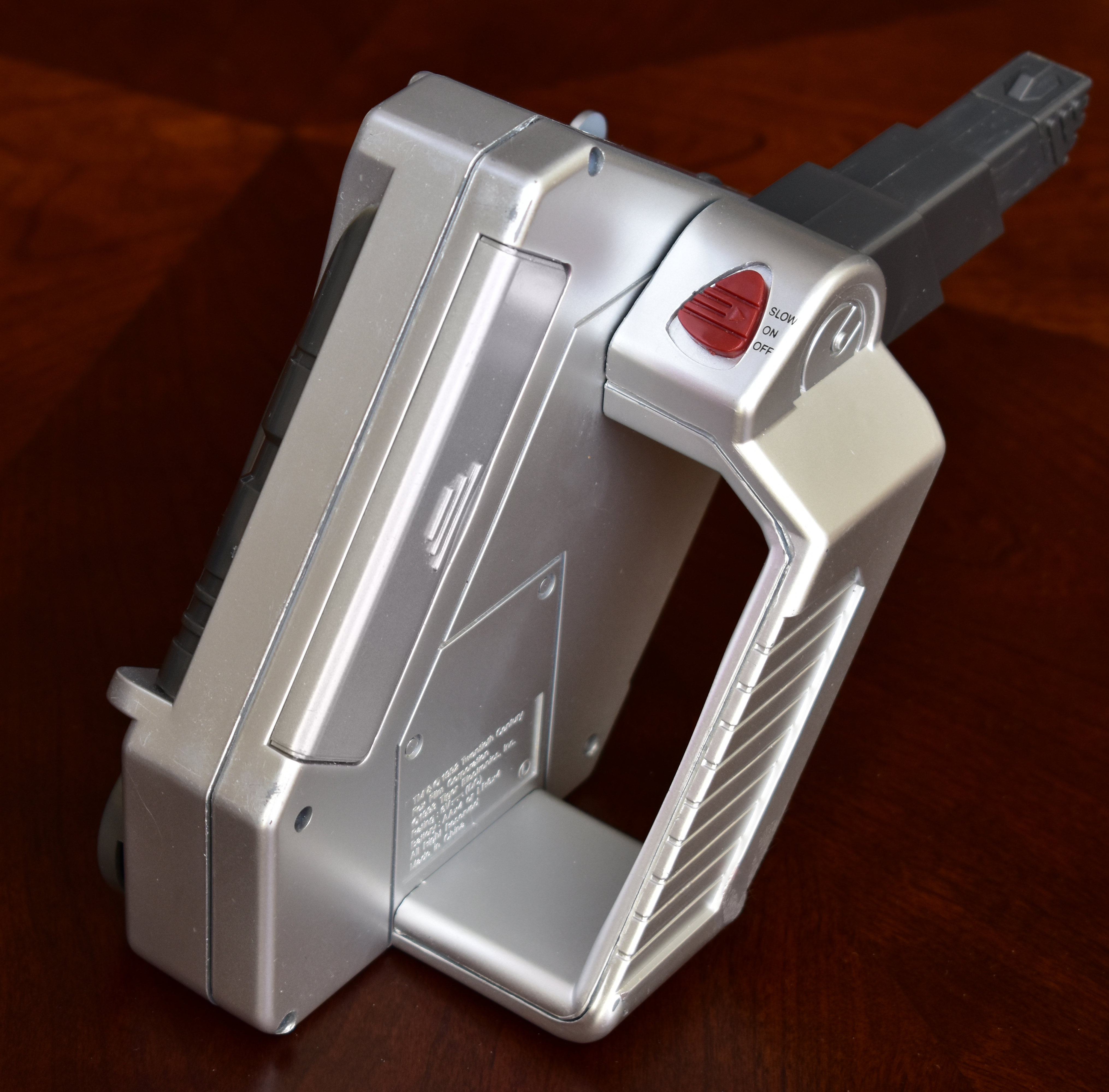 The back of a Deluxe Talkboy cassette player and recorder, released by Tiger Electronics in 1993